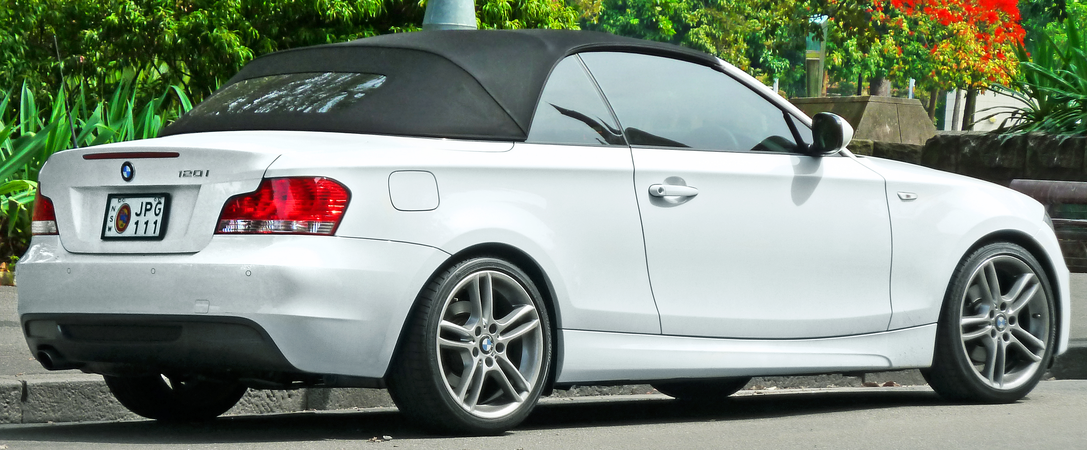 2008–2010 BMW 120i (E88) convertible. Photographed in Sydney, New South Wales, Australia.